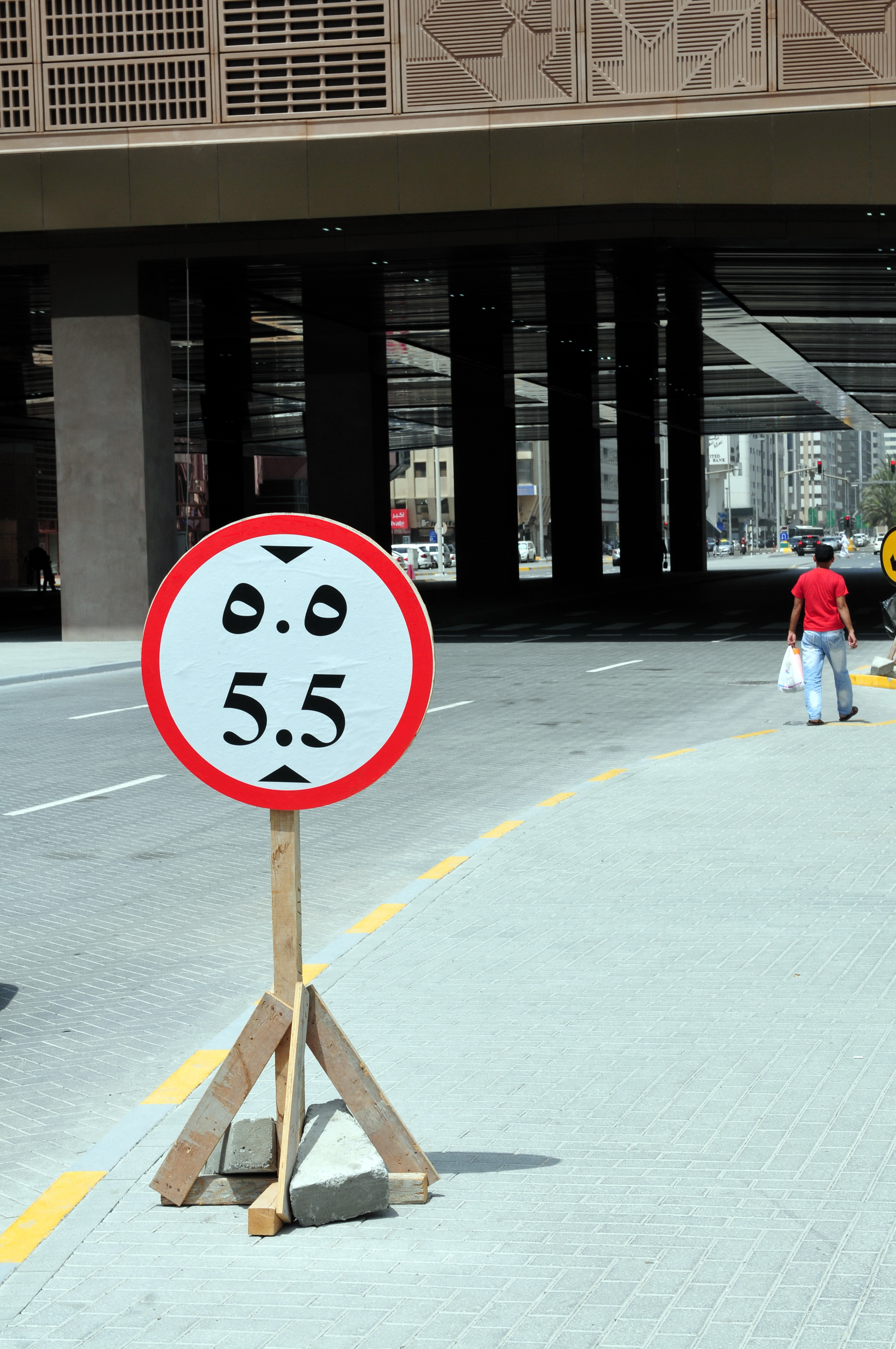 traffic sign in Abu Dhabi